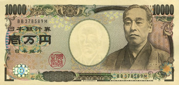 10000 yen banknote, 2004 (front)